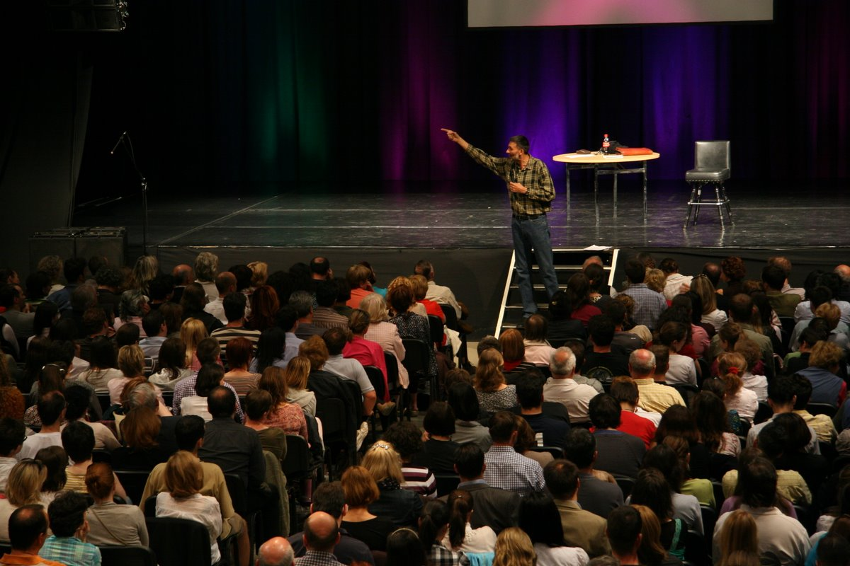 Palferi on a weekly talk